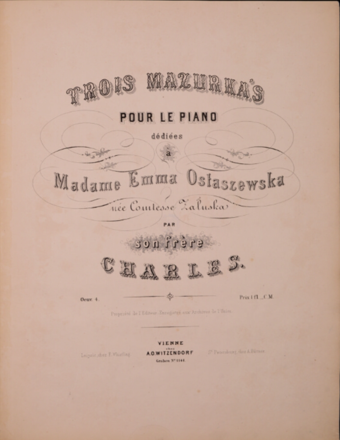 Three mazurkas by Charles Zaluski dedicated to Emma Ostaszewska (cover)